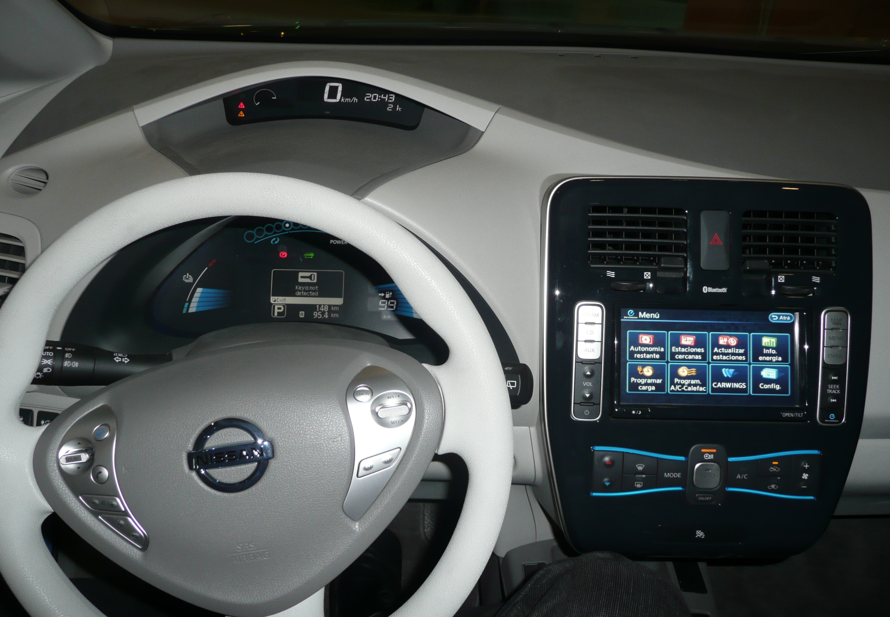 Nissan Leaf Dashboard